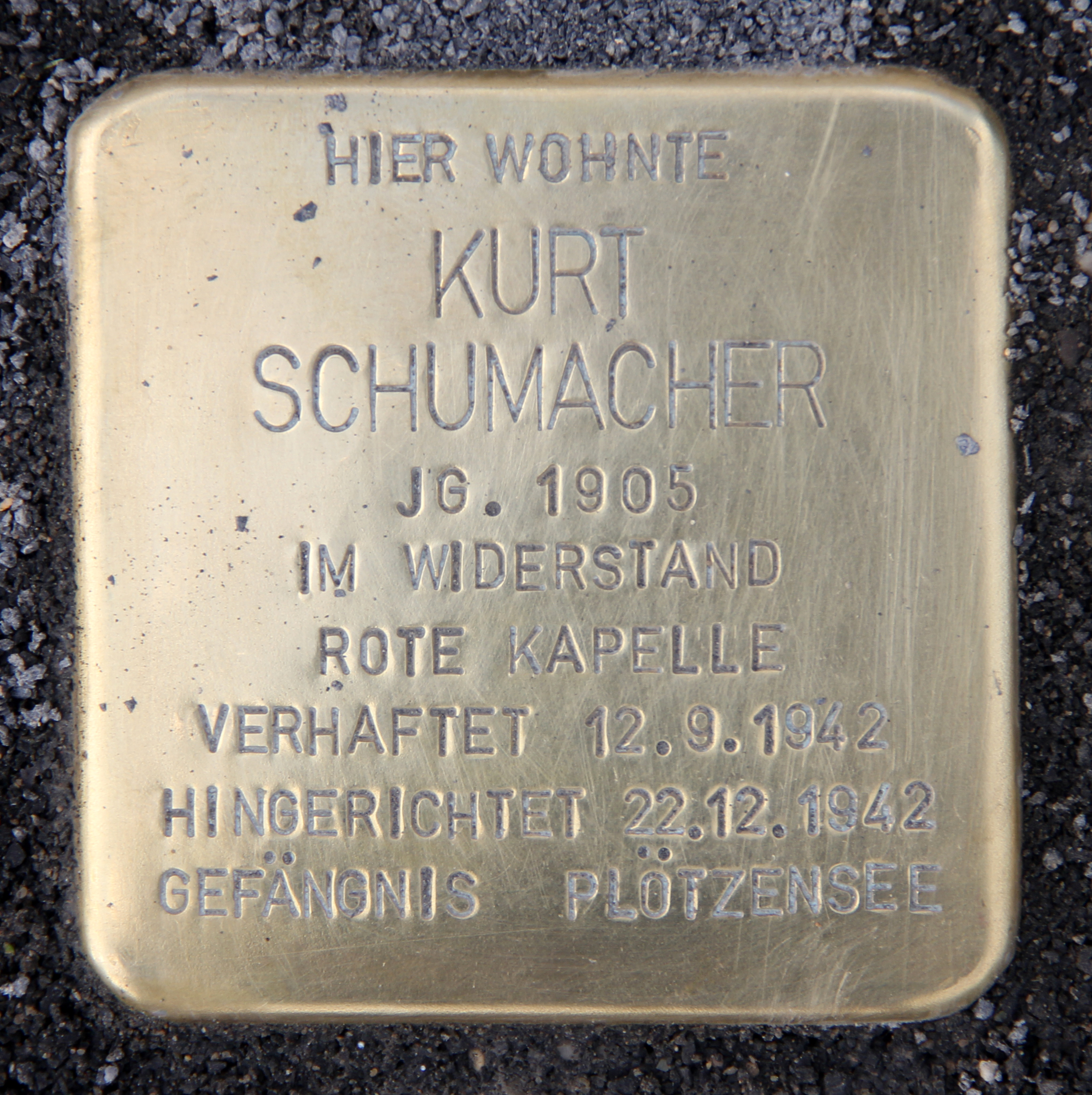 "Stolperstein" (stumbling block), Kurt Schumacher, Werner-Voß-Damm 42, Berlin-Tempelhof, Germany